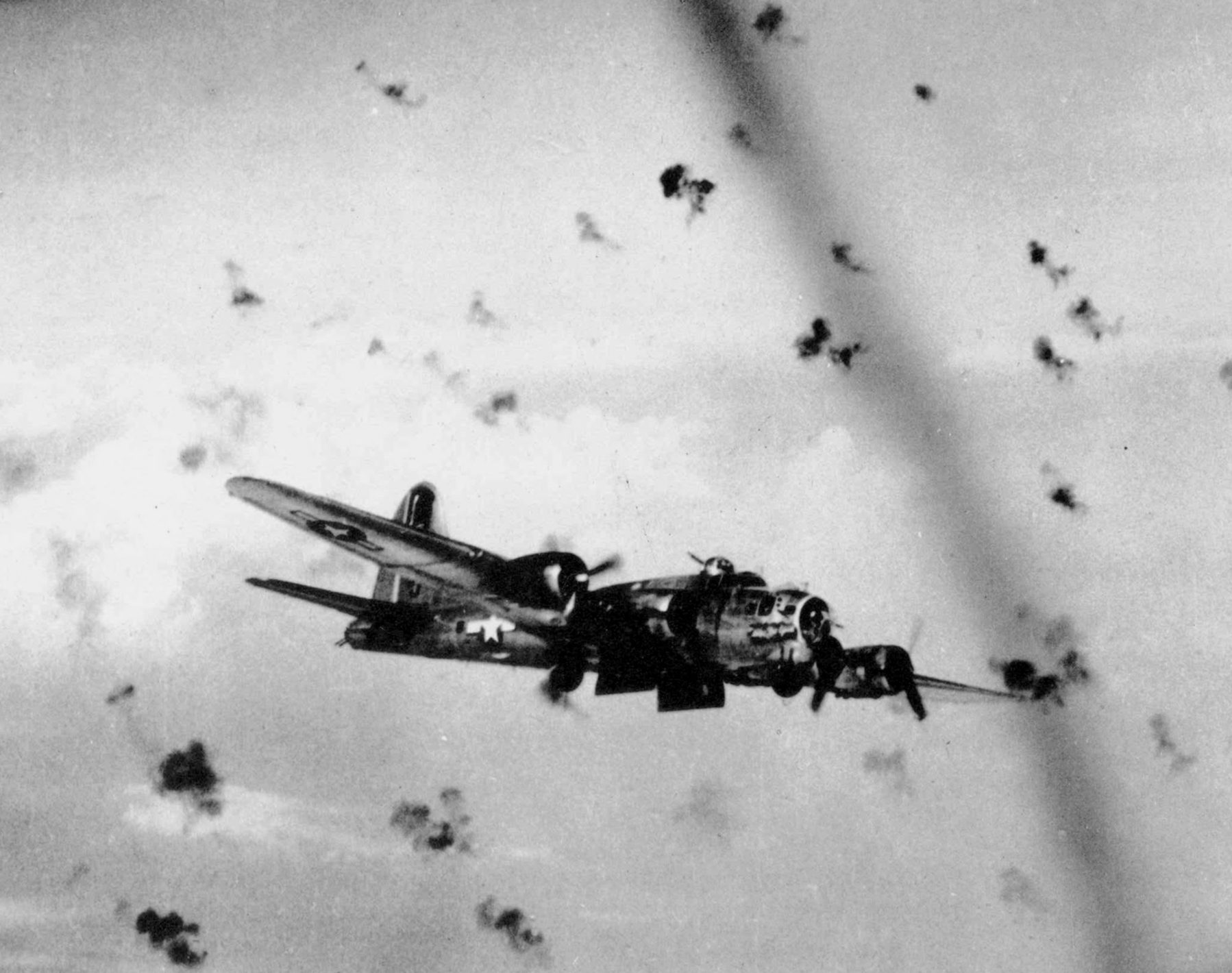 A U.S. Army Air Forces Boeing B-17G Flying Fortress flying through flak over a target. The plane could be from the 452nd bomb Group, which had "L" in a square as tail code.